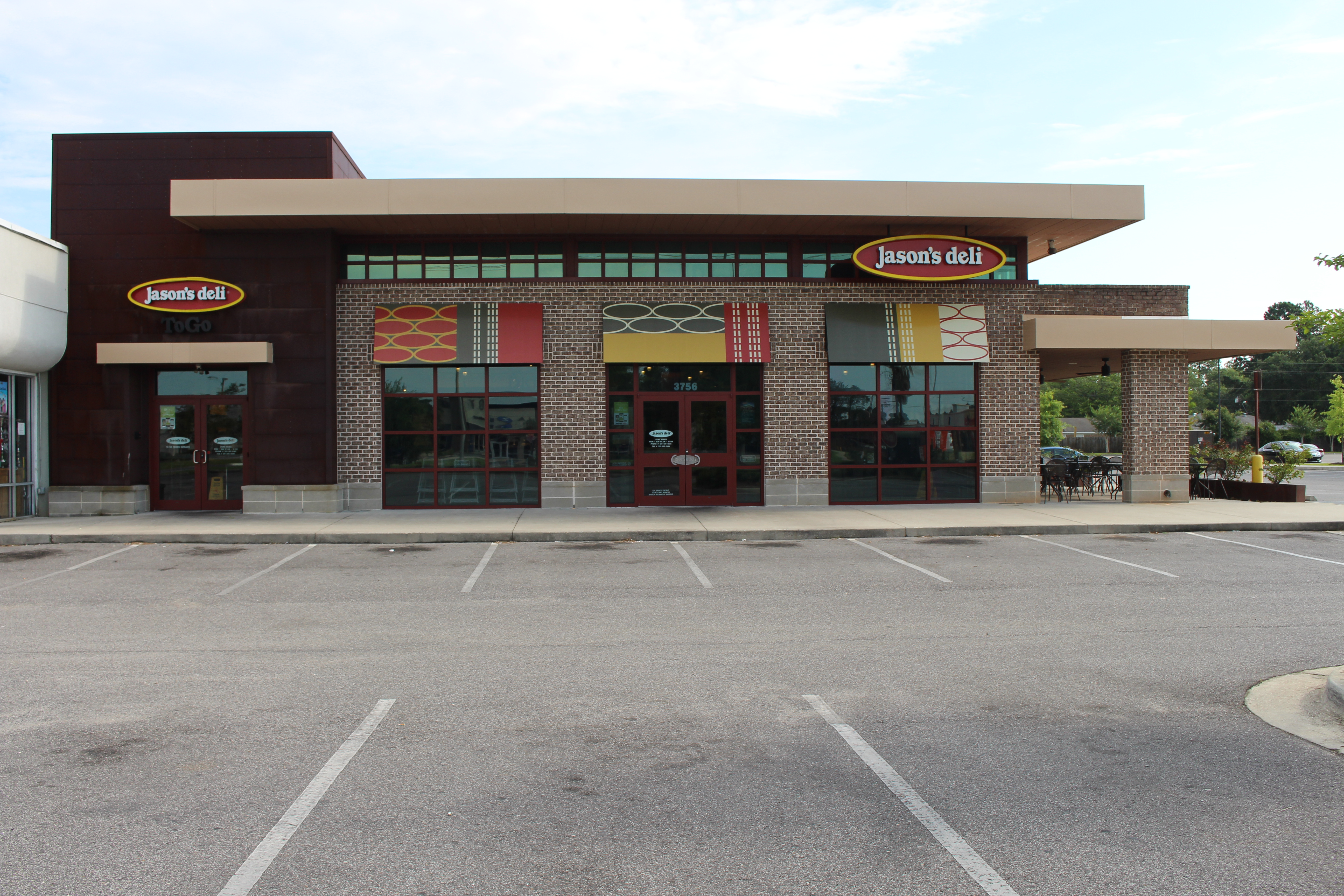 Mobile, Mobile County, Alabama